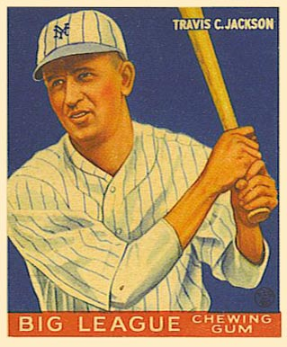 1933 Goudey baseball card of Travis Jackson of the New York Giants #102. PD-not-renewed.